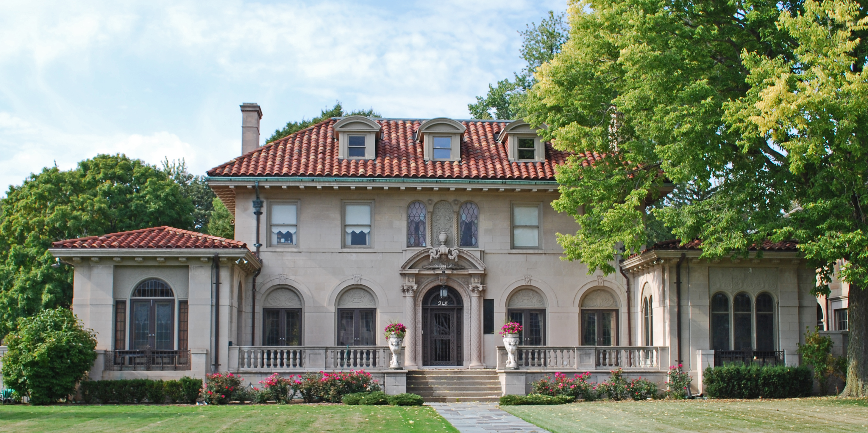 Berry Gordy House — in Detroit, Michigan. 1917 house - Contributing property to the Boston-Edison Historic District, and on the National Register of Historic Places.